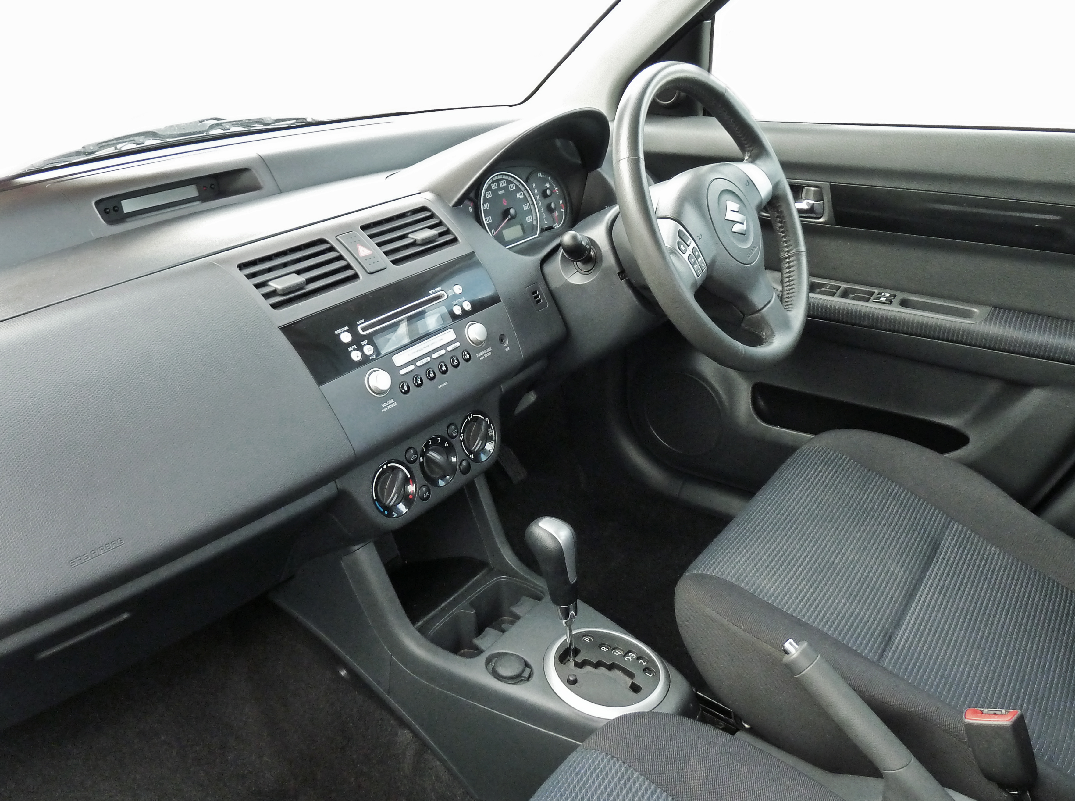 2009 Suzuki Swift (RS415) 5-door hatchback. Photographed in Kirrawee, New South Wales, Australia.